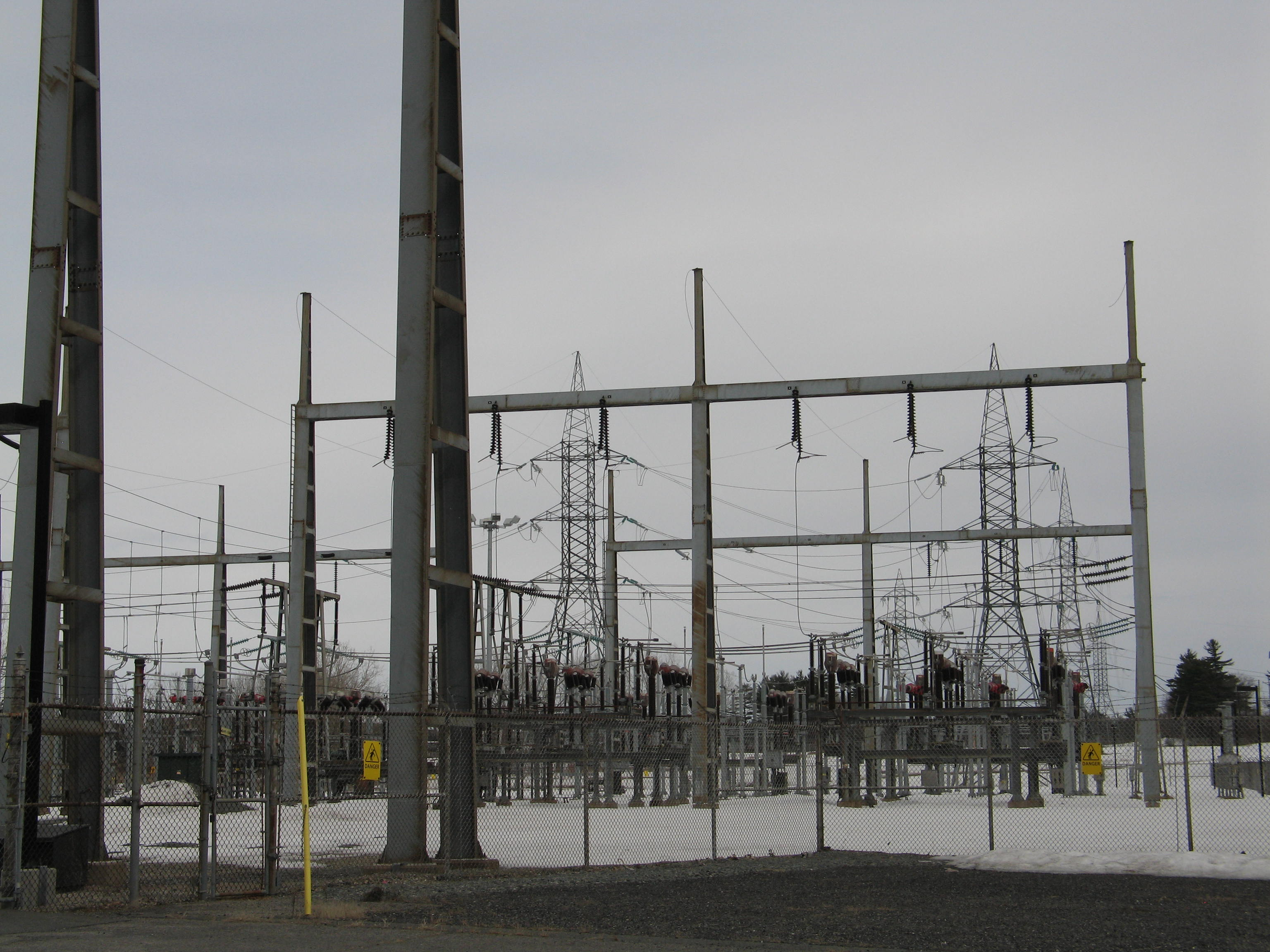 The former terminal station of the Tracy Thermal Generating Station in Quebec.